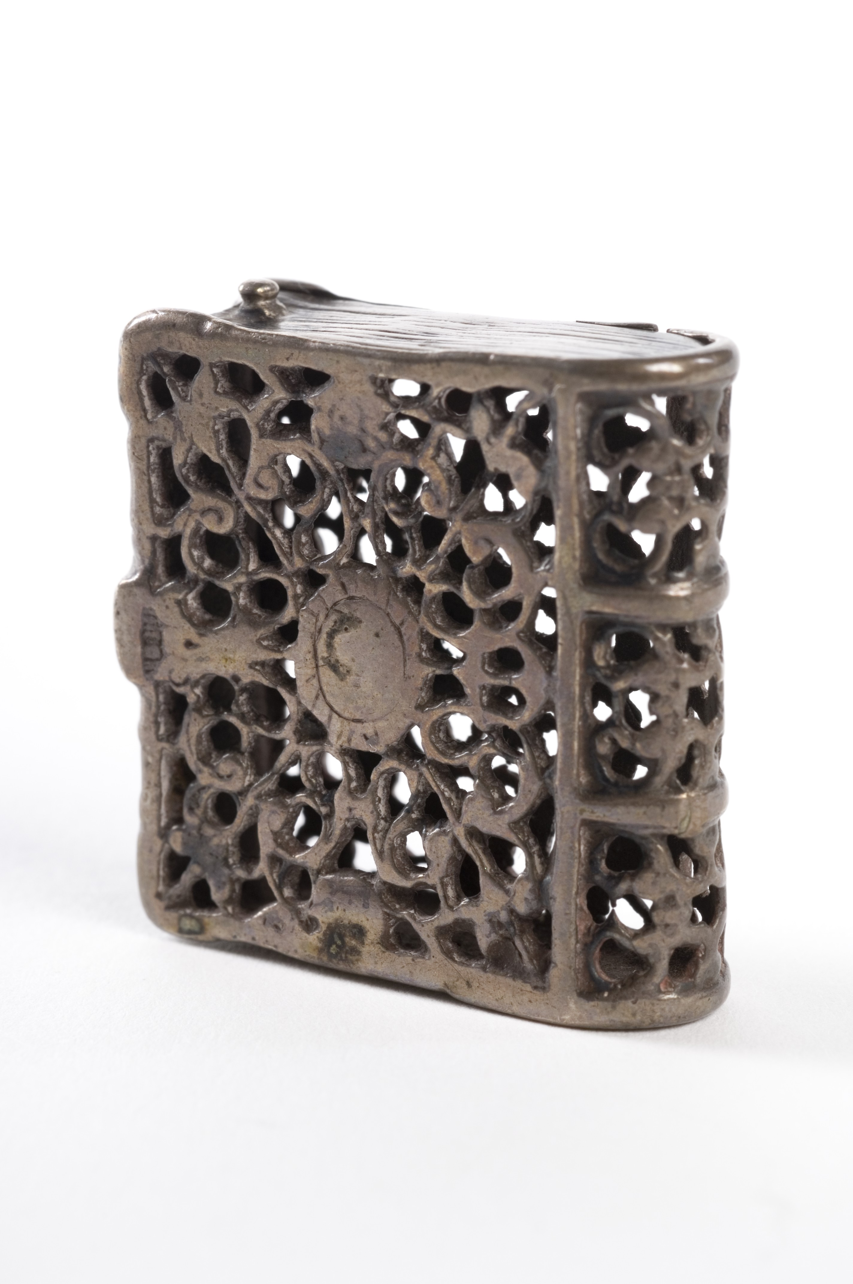 These pomanders were designed to hold either powder or solid perfume in the form of wax. The fragrances of certain herbs and materials( for example, rosemary, musk and cloves) were believed to have medicinal properties and in particular to give protecction against infection from 'corruption of the air'. Men wore pomanders suspended from a chain around their neck while women attached them to their belts. Wellcome Images